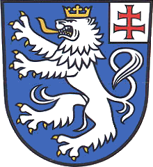 Coat of arms of Schwabhausen